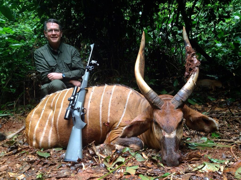 Hunter with his kill (Tragelaphus eurycerus) on a private game preserve in Cameroon, 2017